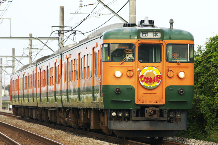 JR "Himawari-gou" train for handicapped person's group.Taken on October 15th 2006.